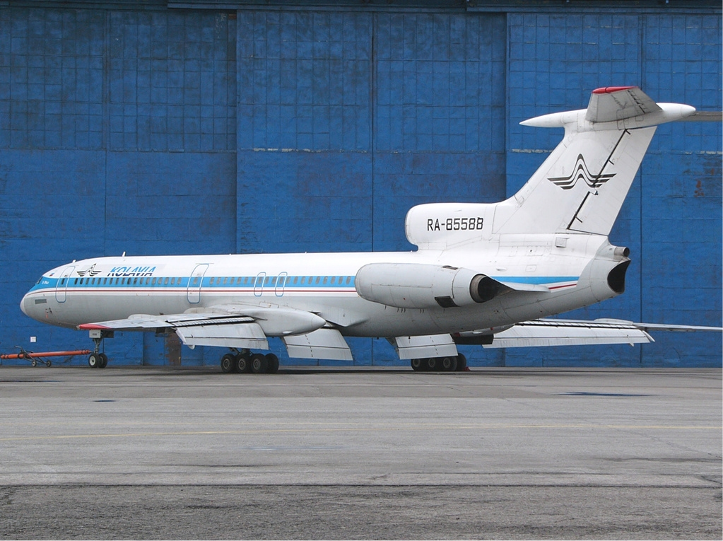 RA-85588, Kolavia Tupolev Tu-154B-2 RA-85588 not long after delivery to the airline from Vladivostok Air